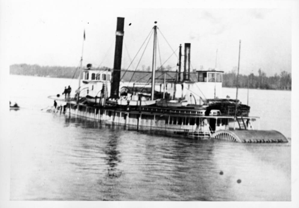 Sternwheel steamer Lurline sunk at Rainier, Oregon, 1911, with the sternwheeler Nestor alongside.